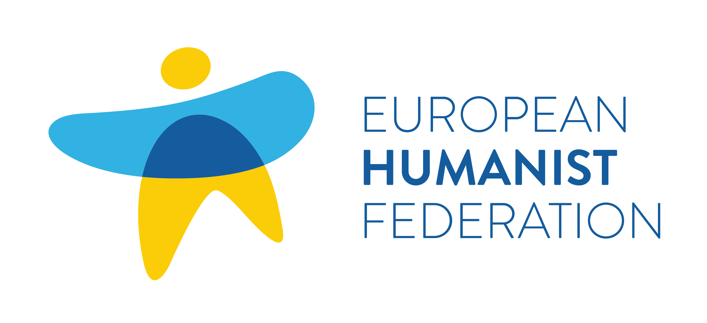 Official logo of the European Humanist Federation